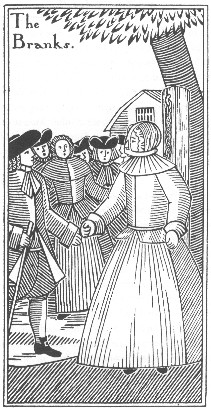 An illustration of a brank or scold's bridle, a historical punishment for the common scold.